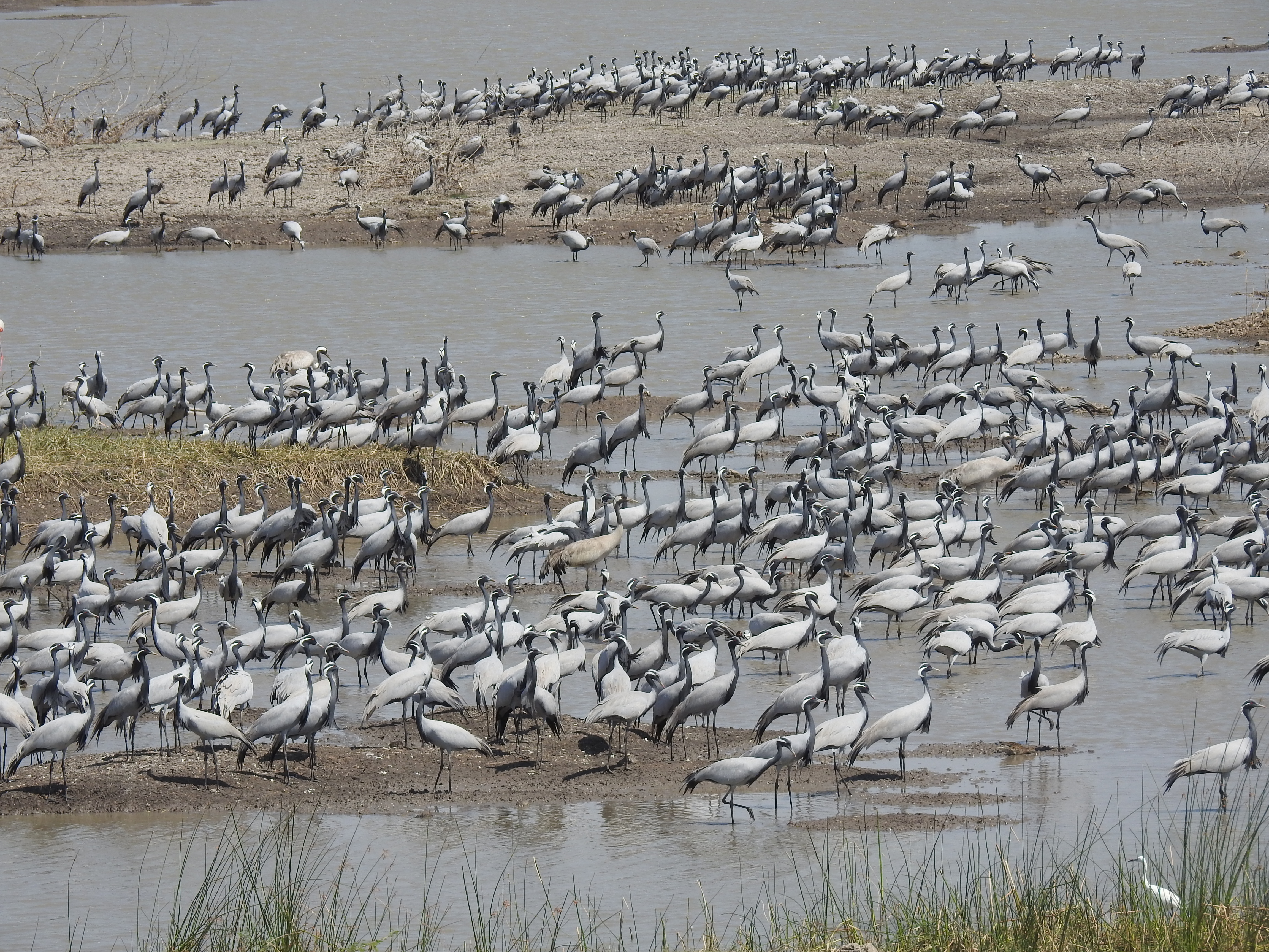 Demoiselle Cranes Grus virgo photographed at Barda Sagar Dam, district Porbandar, Gujarat by Dr. Raju Kasambe